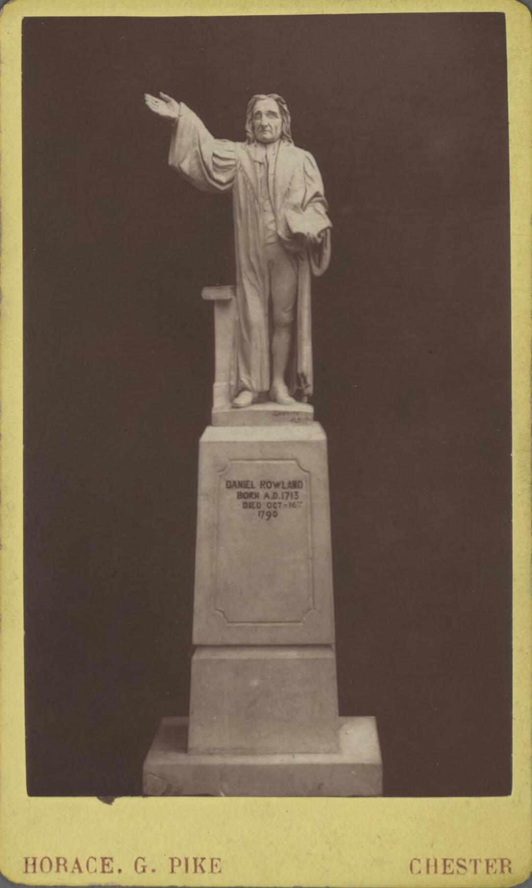 A portrait from the Welsh Portrait Collection at the National Library of Wales. Depicted person: Daniel Rowland – Welsh Calvinistic Methodist leader